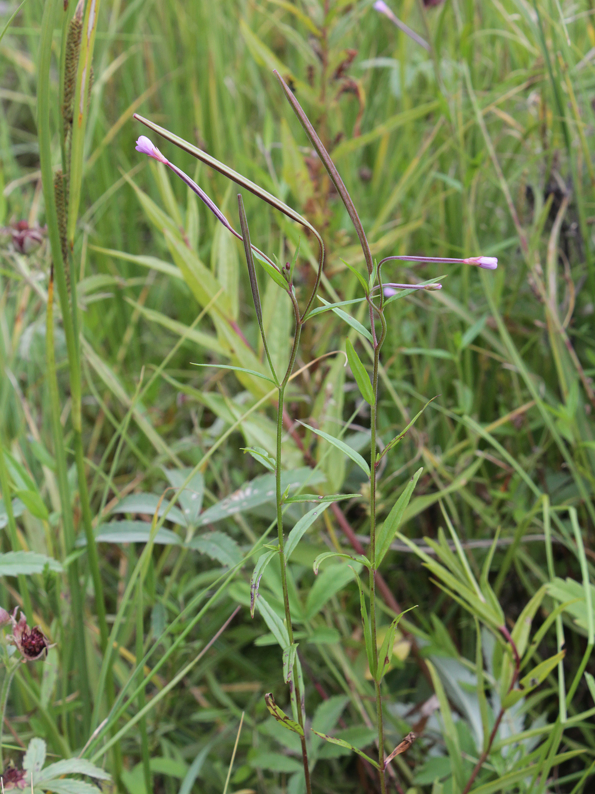 Onagraceae, Epilobium palustre